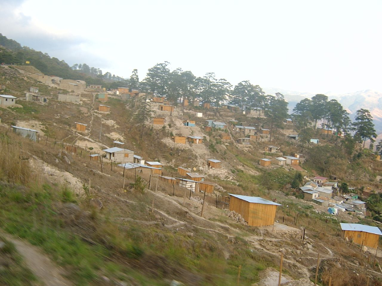 A shanty town in Tegucigalpa, Honduras. This area on the mountain is marked by the goverment as a 'hurrican area'. Thus, no one is allowed to live here. So every couple of months the government comes in and bulldozes everything. Just a week prior, this had been done. Look how fast the people put up their houses again. As the week went on, even more appeared.Honduras